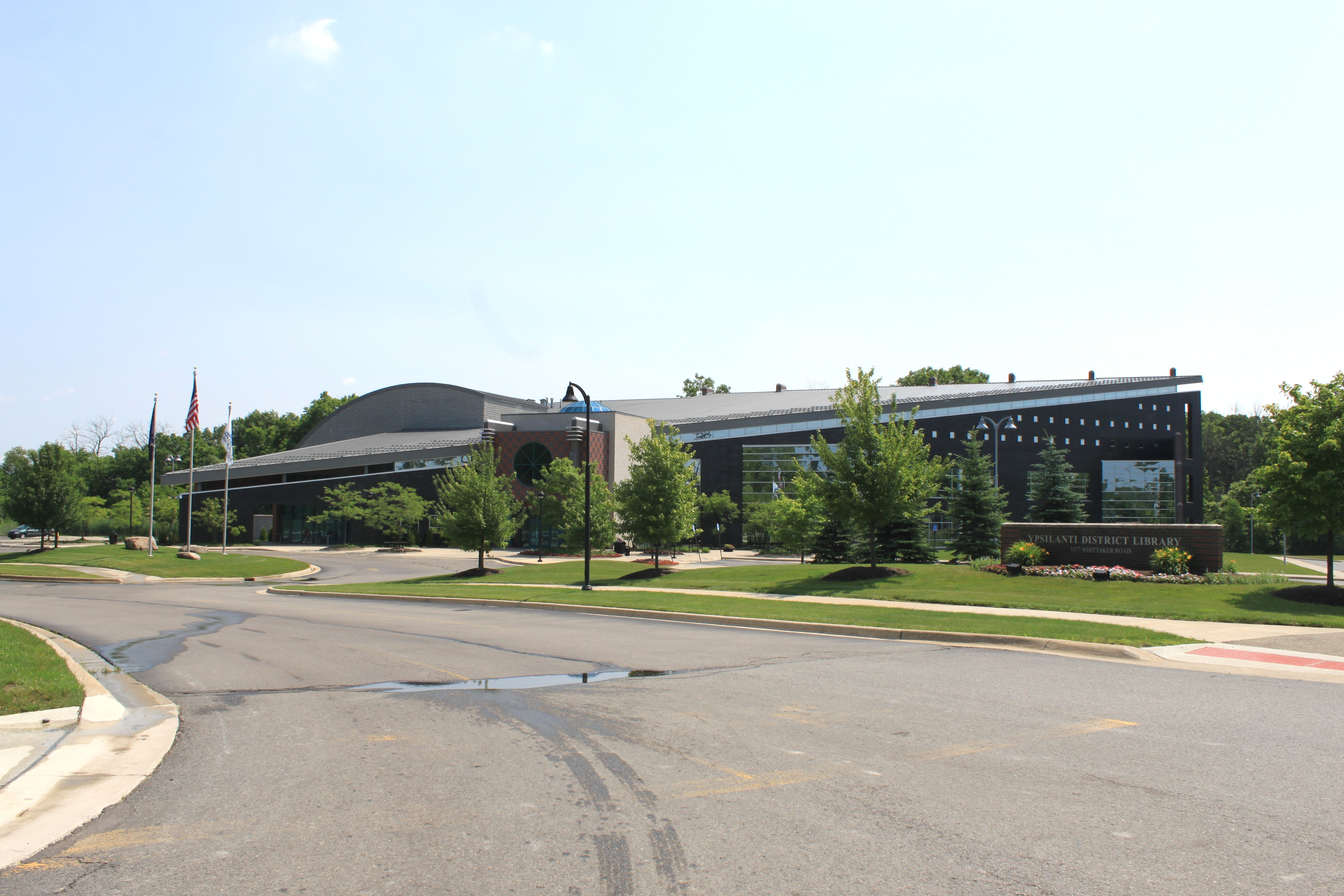 Ypsilatnti District Library, 5577 Whittaker Road, Ypsilanti Michigan